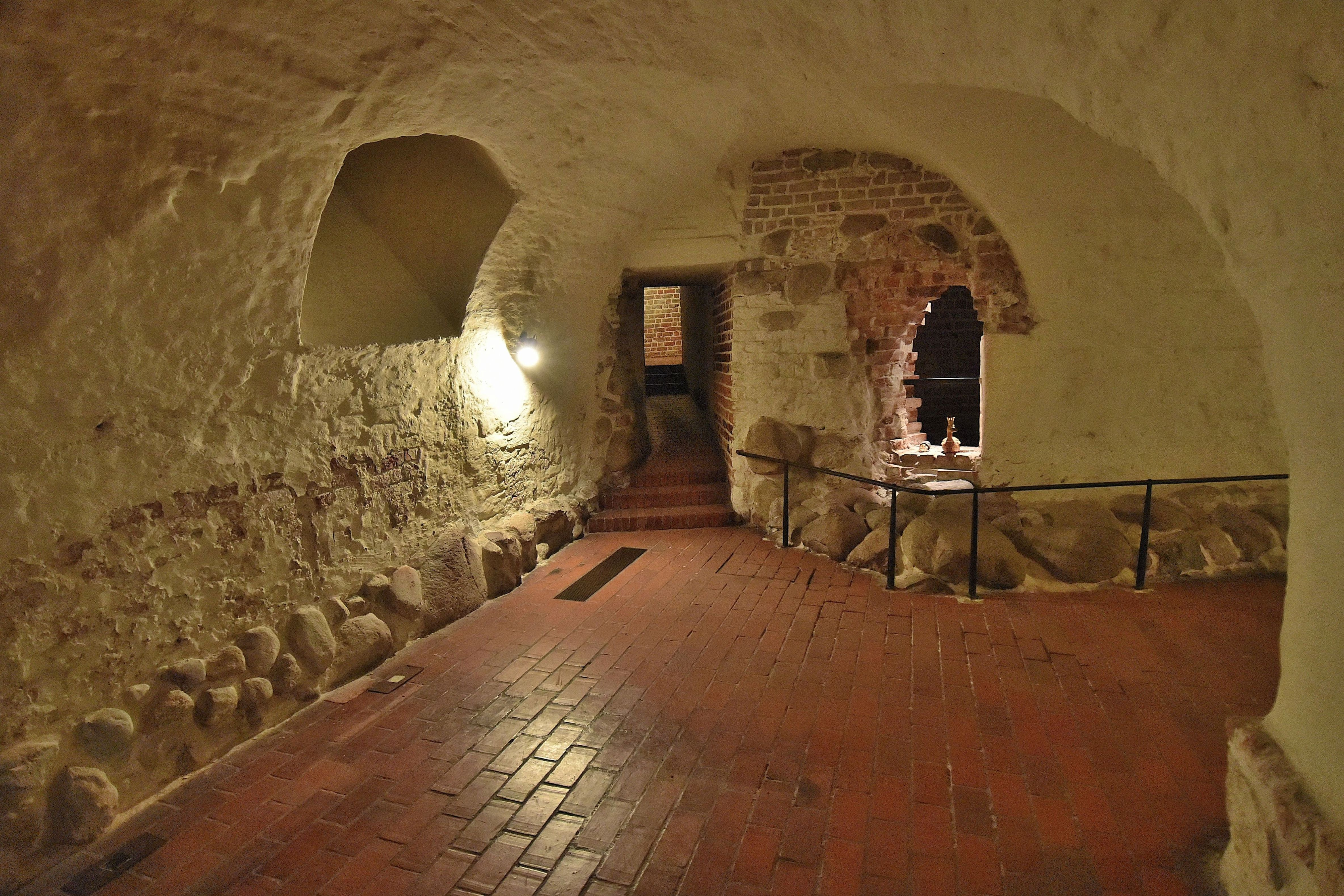 Well Cellar at the Royal Castle in Warsaw